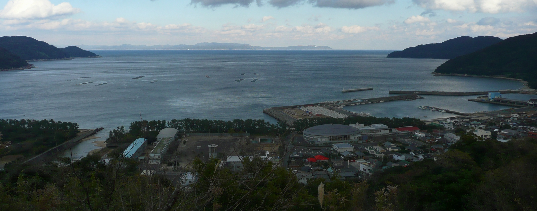 Uchinoura Bay (Kimotsuki Town, Kagoshima, Japan)